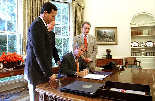 President George W. Bush signs The Flight 93 National Memorial Act in the Oval Office Tuesday, Sept. 24. The bill authorizes the building of a national memorial to the passengers and crew who died aboard Flight 93 when it crashed into Shanksville, Pa., during the Sept. 11 terrorist attacks. Standing with the President are Pennsylvania Congressman Sen. Rick Santorum, far left; Rep. John Murtha, center; and Sen. Arlen Specter.